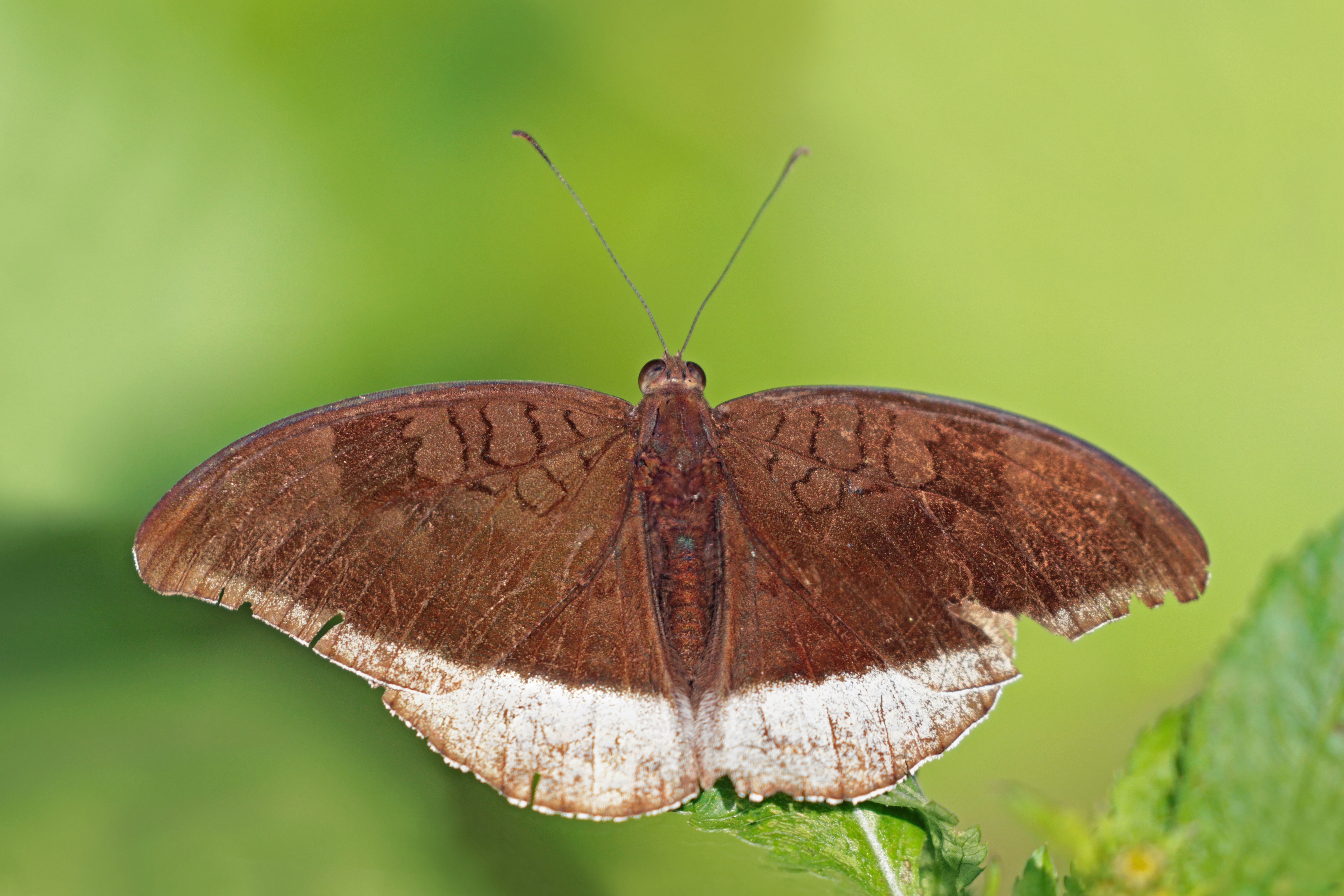 Grey count (Tanaecia lepidea lepidea), Basundhara Park, Pokhara, Nepal. Also known as Himalayan grey count.